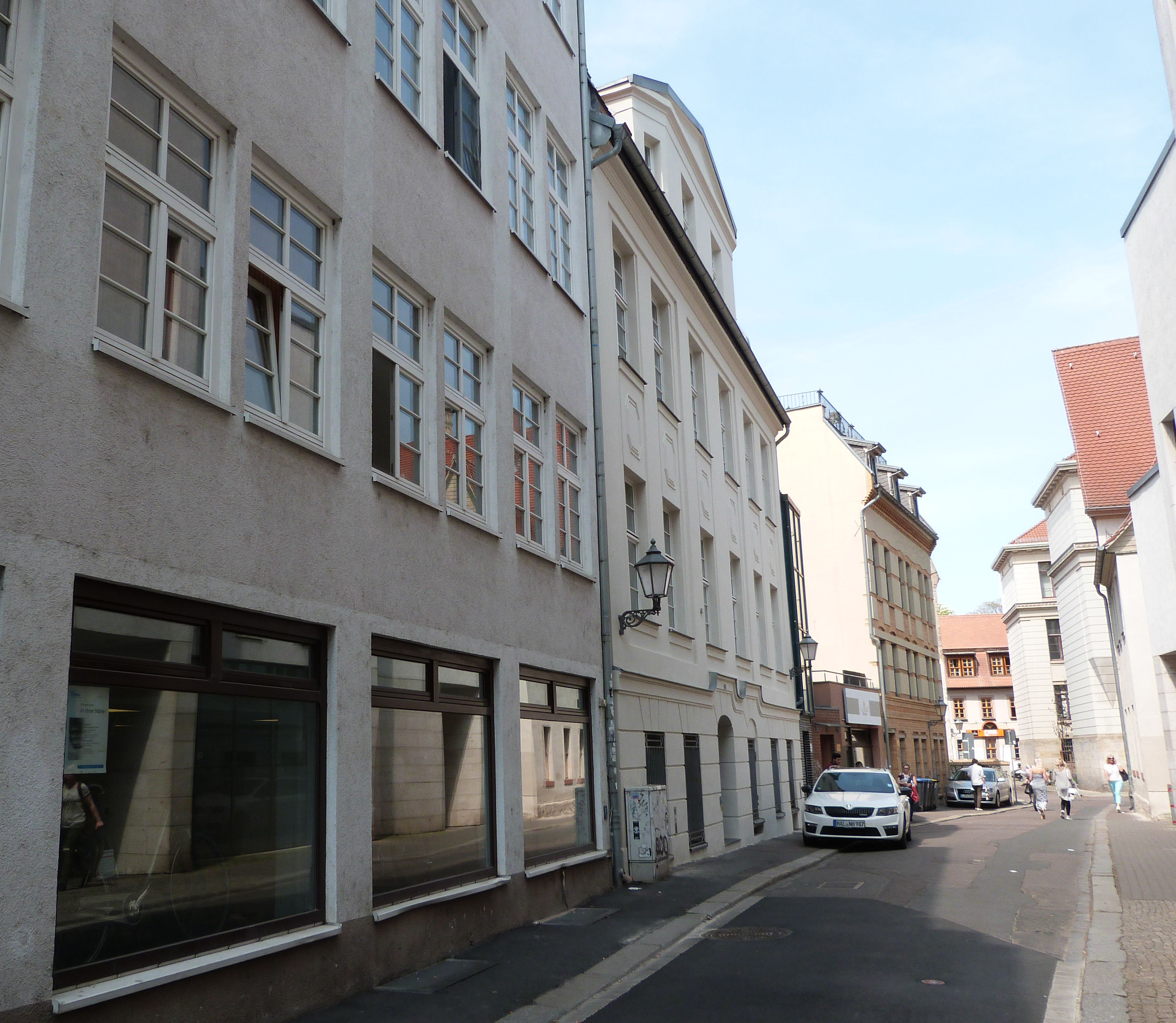 Street Spiegelstrasse in Halle (Saale), view to the street Kaulenberg